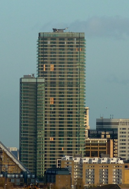 22 Marsh Wall towers in November 2009